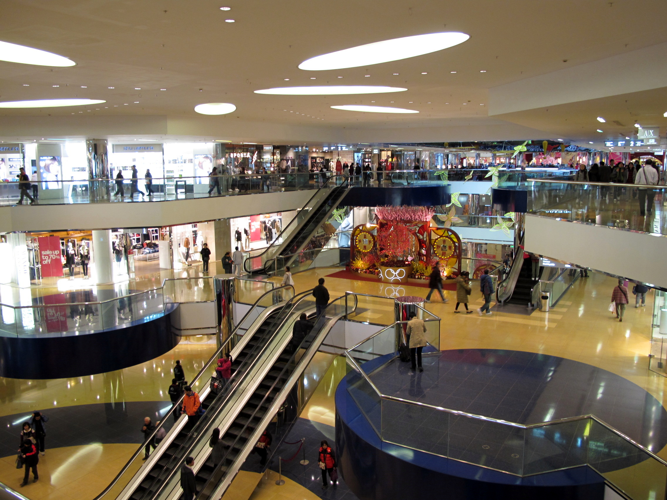 Cityplaza Phase 2 Void 太古城中心二期商場中庭